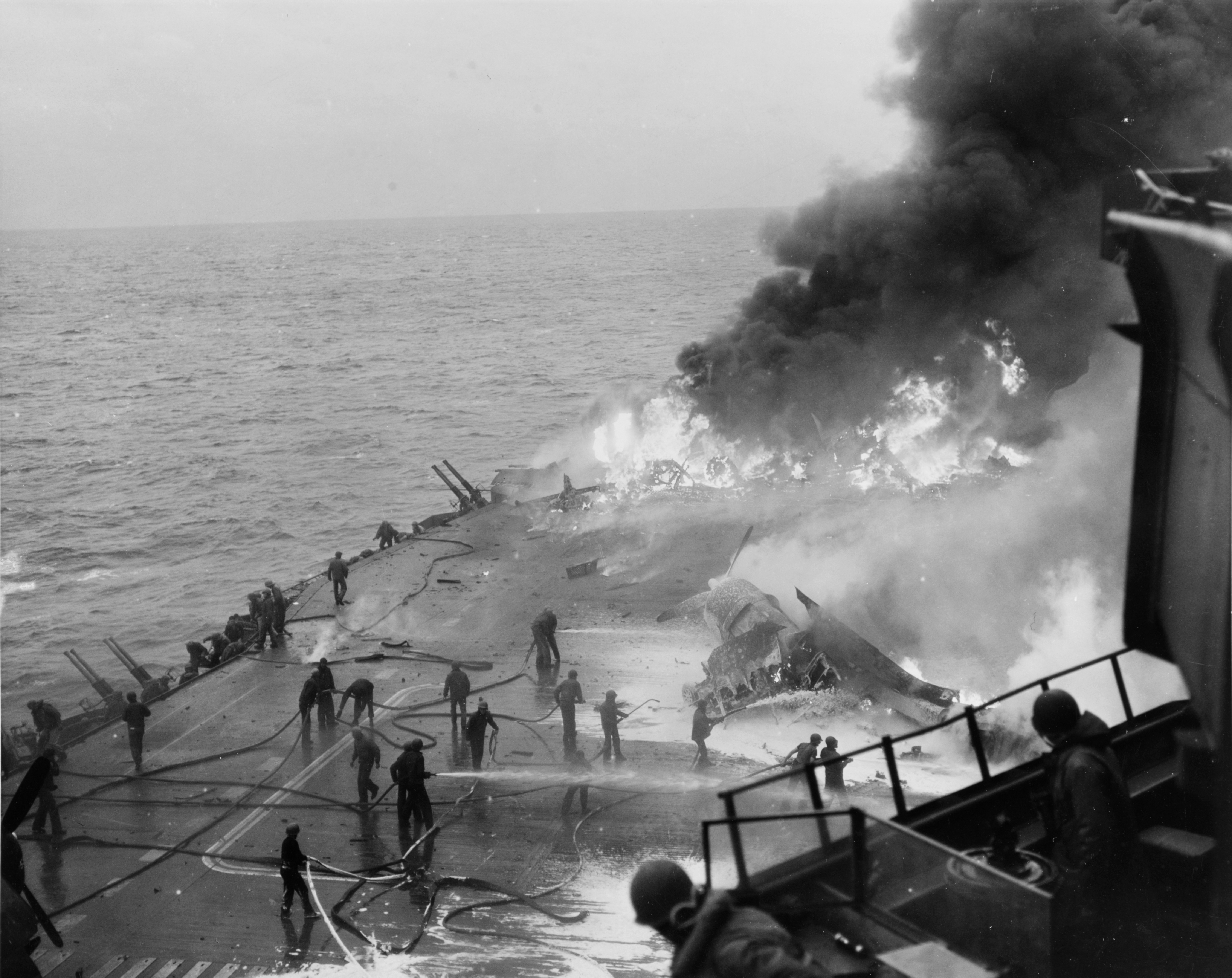 The U.S. Navy aircraft carrier USS Saratoga (CV-3) burning after five "Kamikaze" suicide planes hit the forward flight deck off Chi-chi Jima, shortly after 17:00h, 21 February 1945. Another attack at 19:00h scored an additional bomb hit. 123 of her crew were dead or missing as a result of the attacks. By 20:15h, the fires were under control, and the carrier was able to recover aircraft, but she was ordered to Eniwetok and then to the U.S. West Coast for repairs, arriving at the Puget Sound Naval Shipyard, Bremerton, Washington (USA), on 16 March. On 22 May, Saratoga departed Puget Sound fully repaired, and she resumed training pilots at Pearl Harbor on 3 June.